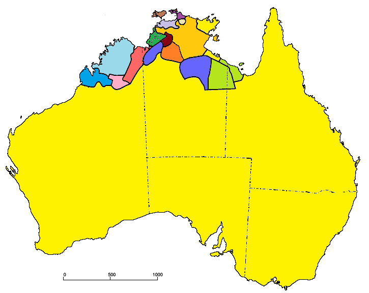 Australian language families, color coded. Australian language families. From west to east: Nyulnyulan Worrorran Bunuban Jarrakan Mindi (2 areas) Daly (4 families) Wagiman Yangmanic Tiwi (offshore) Darwin Region Iwaidjan Giimbiyu Arnhem, incl. Gunwinyguan Garawan and Tangkic Pama–Nyungan (3 areas)